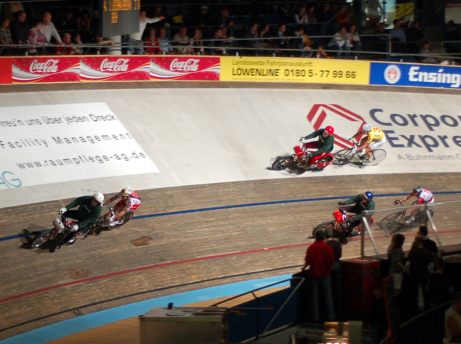 A derny race during the six days in Stuttgart on January 19th, 2008